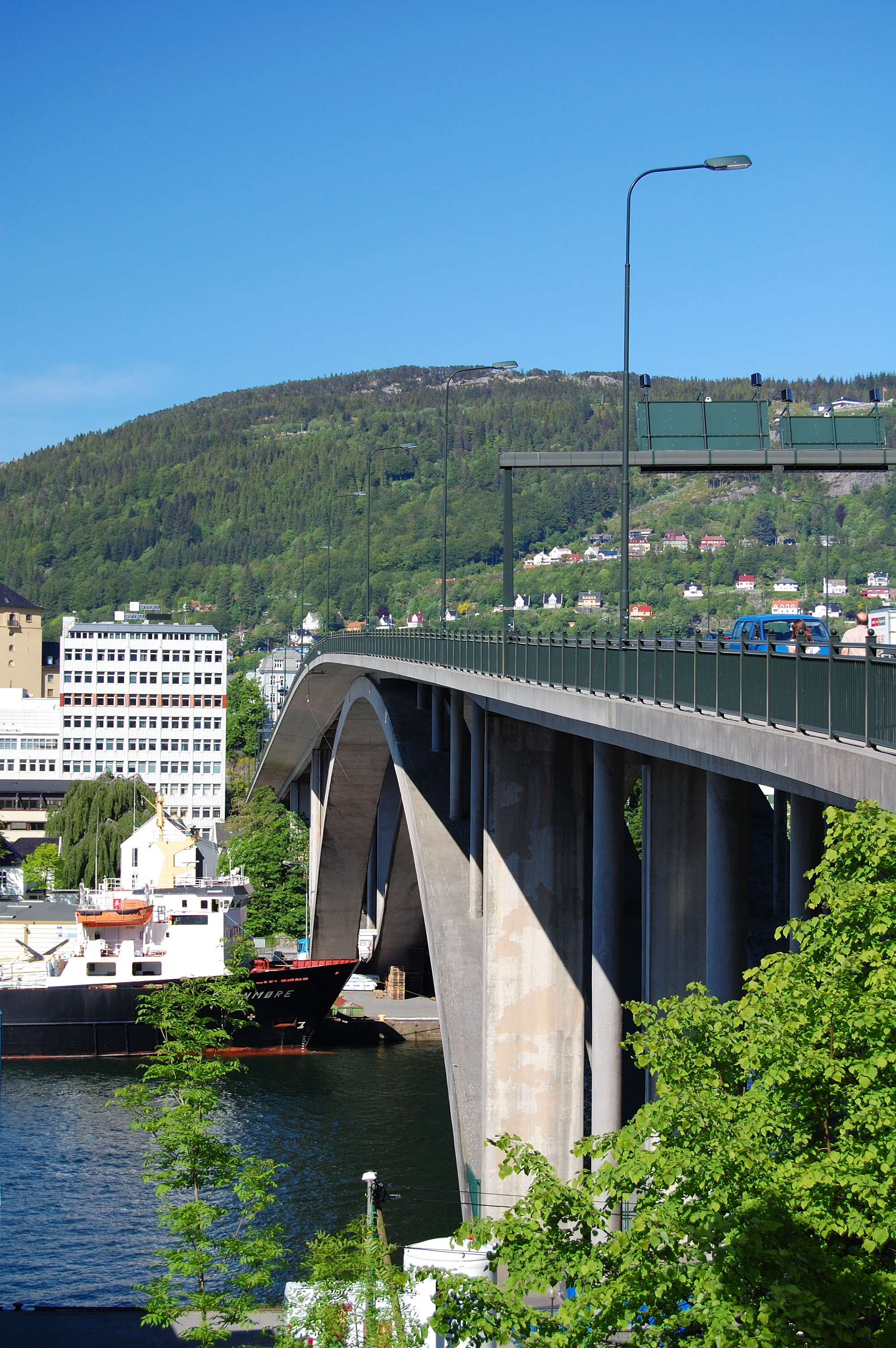 Puddefjord bridge in Bergen, Norway.